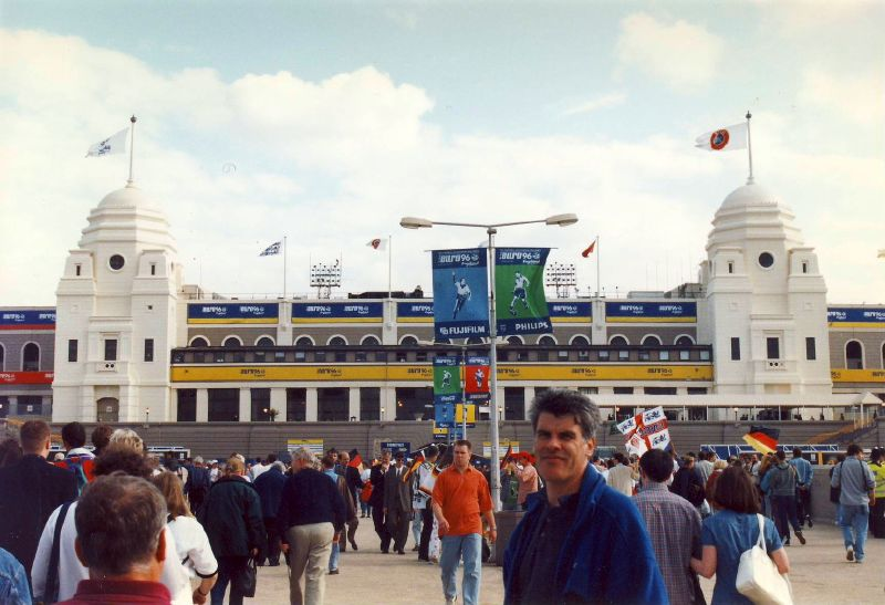 Wembley Twin Towers